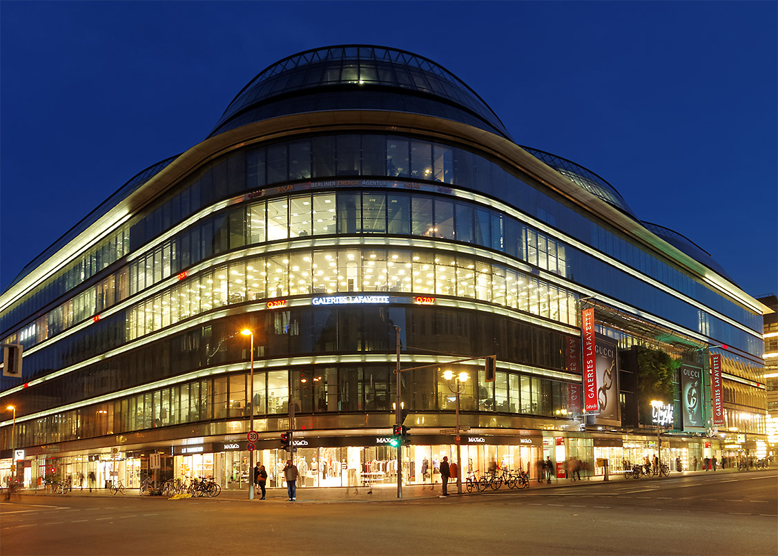 French department store Galeries Lafayette in the Friedrichstraße in Berlin-Mitte, Germany (OA224330-Dv3)